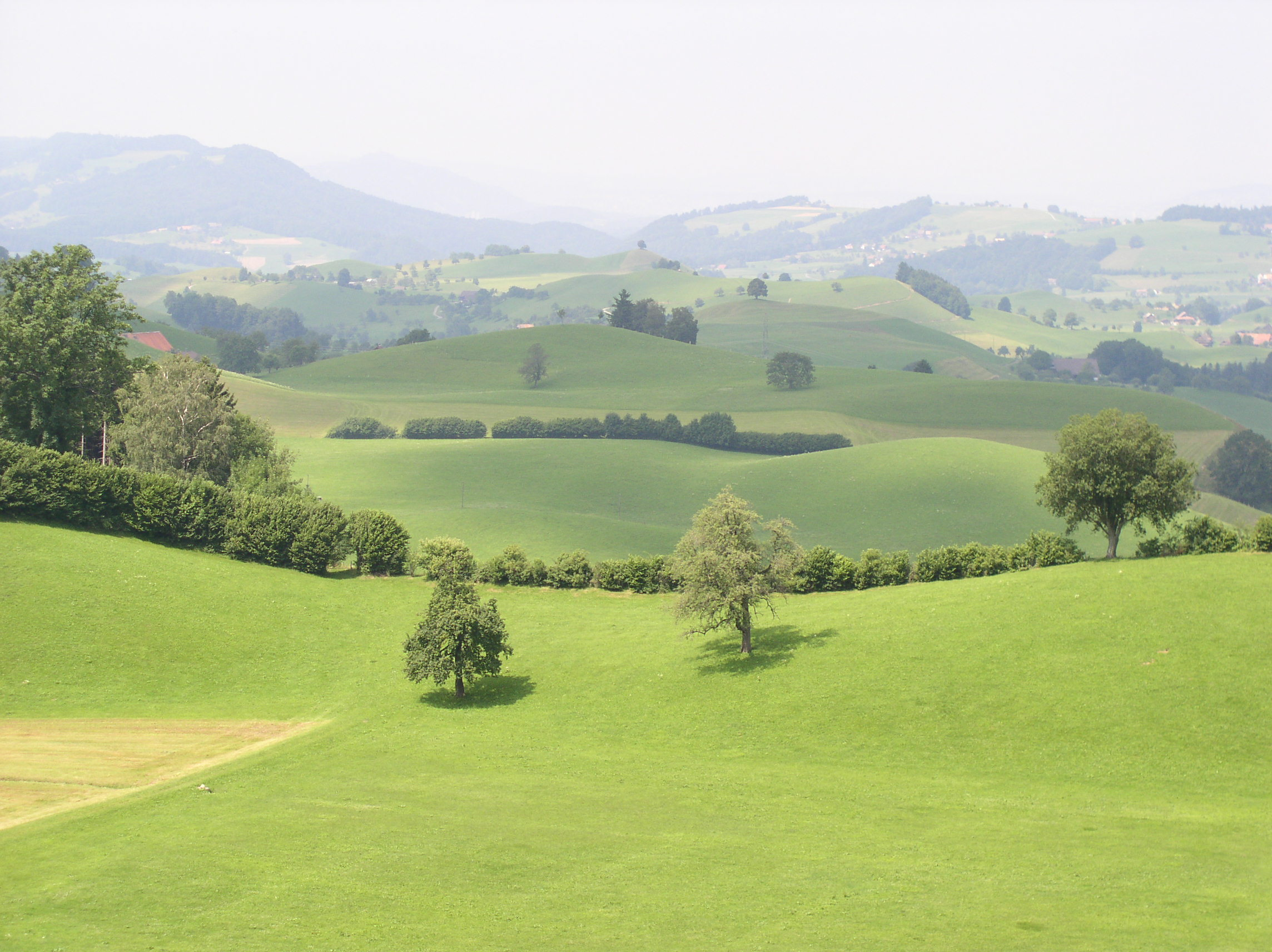 Description: Moränenlandschaft um Menzingen Source: photo taken by me, July 2005 Photographer: Baikonur